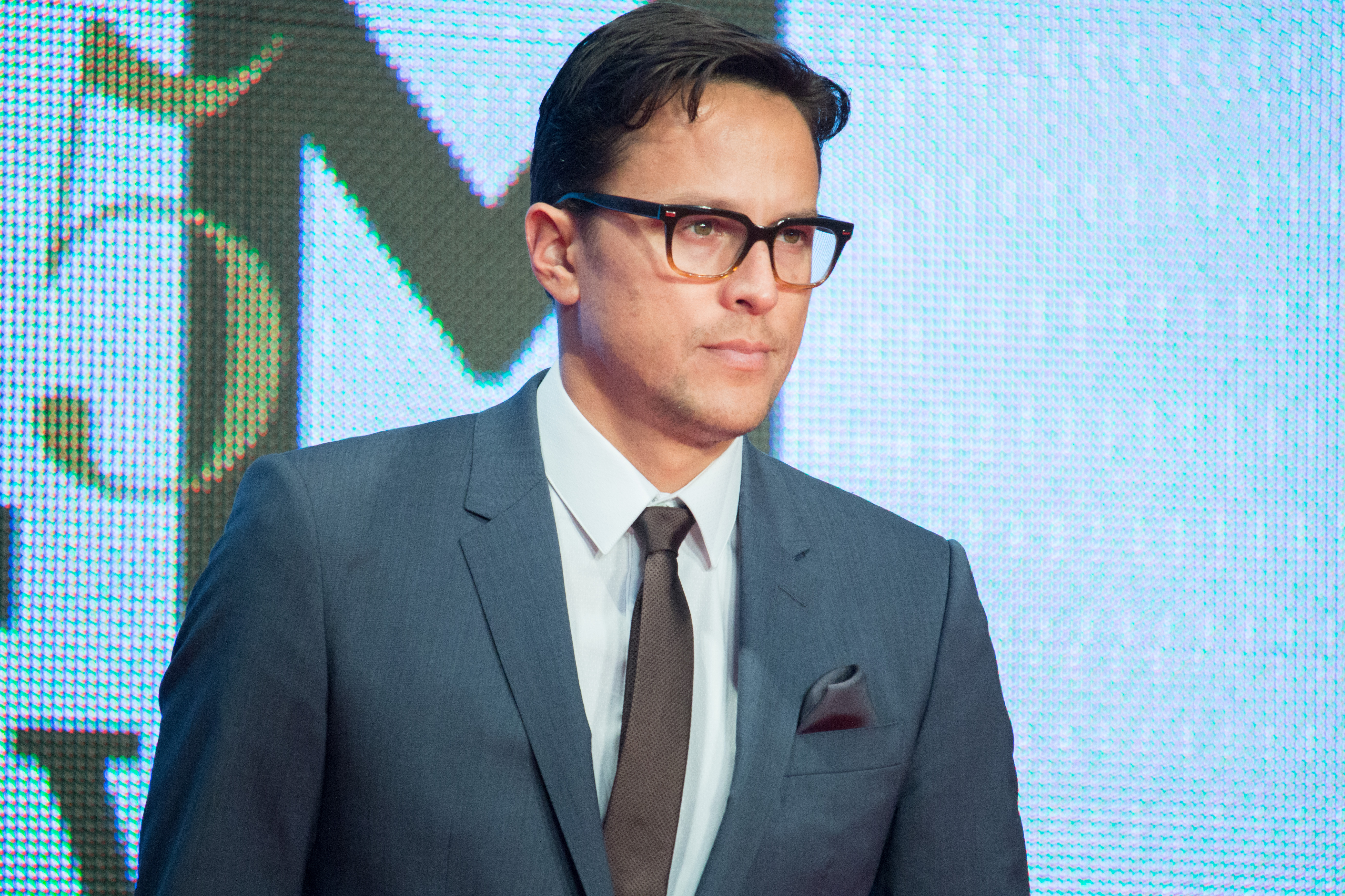 Cary Fukunaga "Beast Of No Nation" at Opening Ceremony of the 28th Tokyo International Film Festival